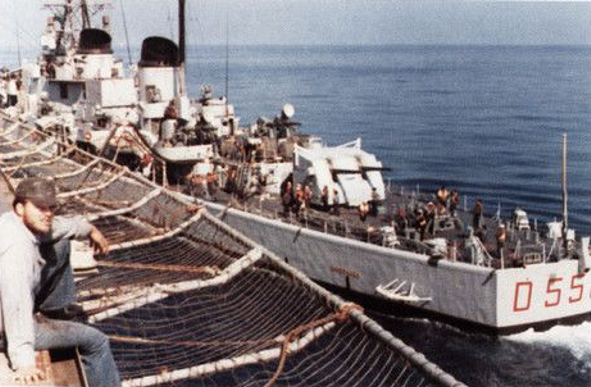 The Italian destroyer Impetuoso (D558) is refueled the U.S. Navy replenishment oiler USS Kalamazoo (AOR-6) in the Mediterranean Sea during the NATO exercise "Dawn Patrol", in May 1977.